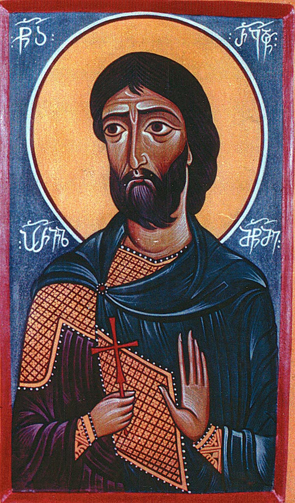 Painting of a Persian nobleman named Razhden, who left his Zoroastrian faith and converted to Christianity.